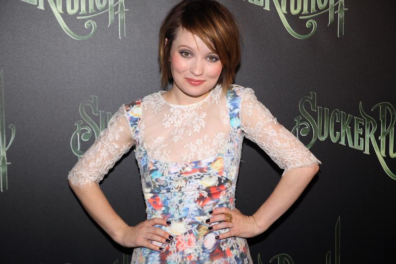 Emily Browning at the premiere of Sucker Punch in Sydney, Australia in April 2011